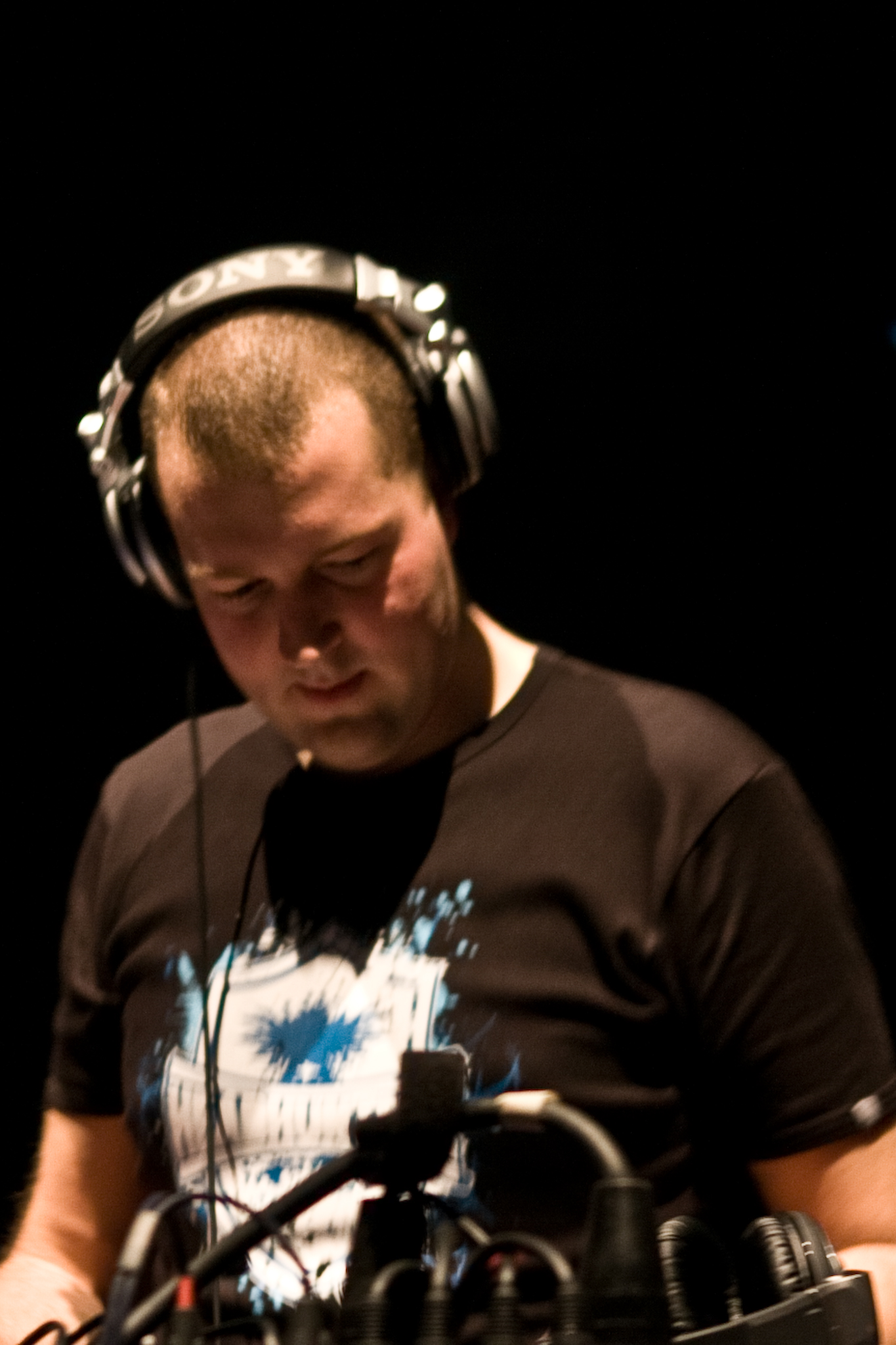 Brennan Heart at X-Qlusive Headhunterz live at the turntables.